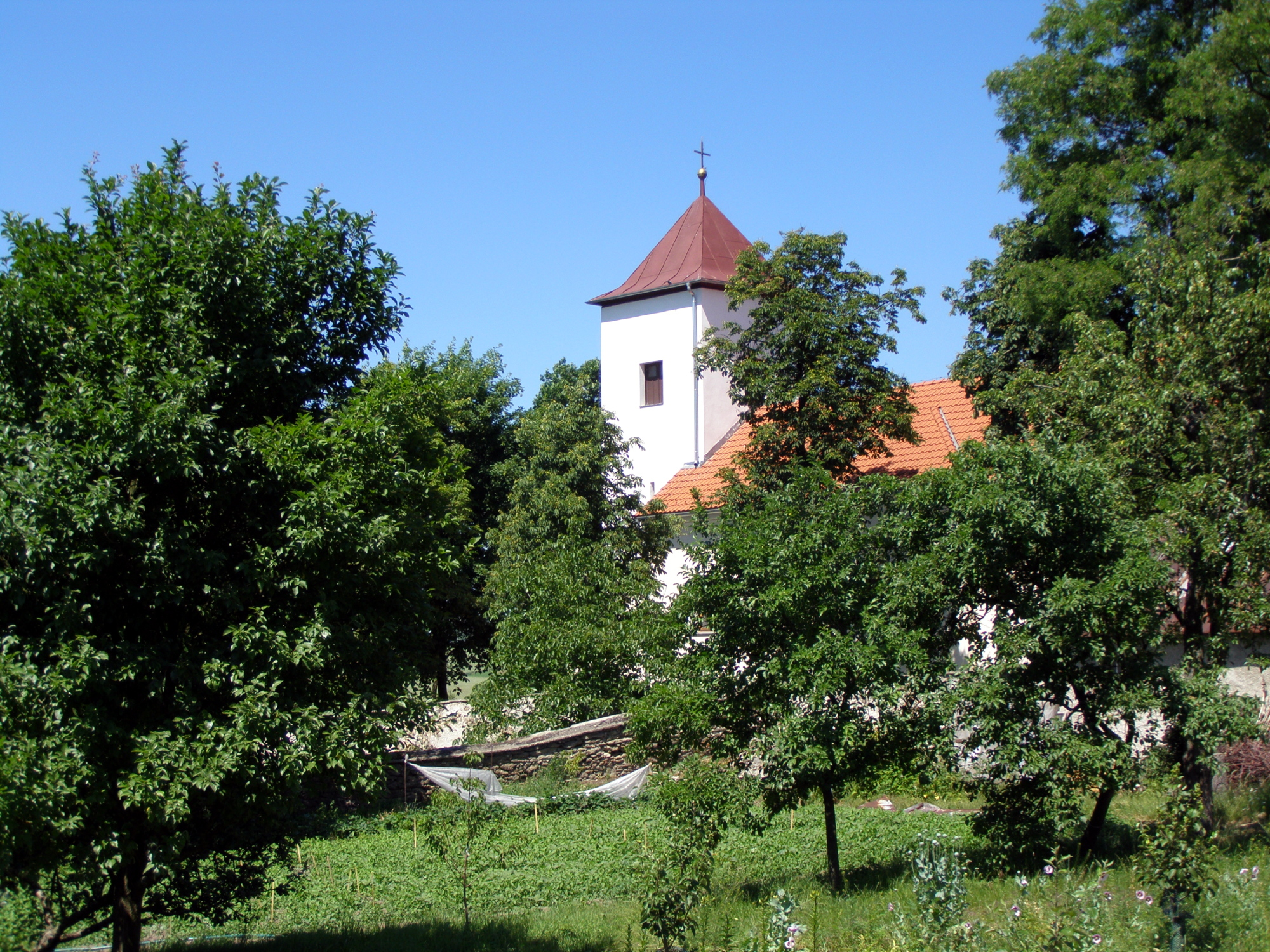 Střížov village, part of Vladislav. St. Giles church -- exterior